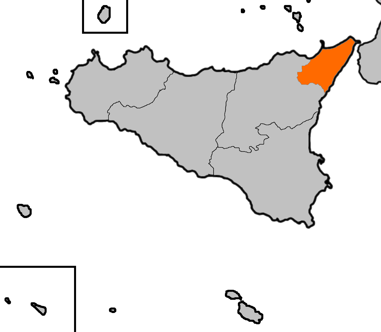 Localisation map of the Strategoto di Messina after the year 1302.